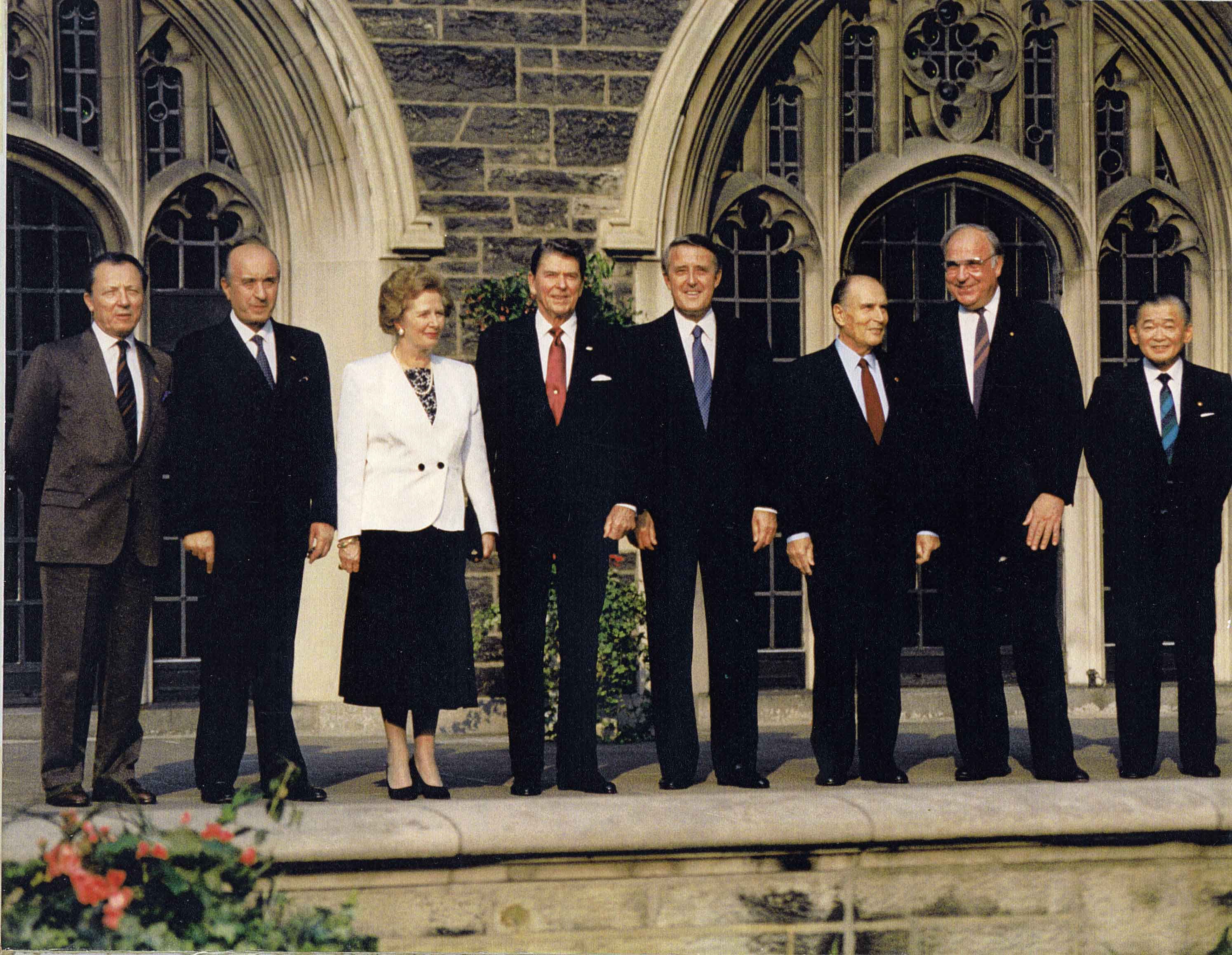 G-7 Economic Summit leaders at the University of Toronto in Canada (left to right) Jacques Delors, Ciriaco De Mita, Margaret Thatcher, Ronald Reagan, Brian Mulroney, Francois Mitterrand, Helmut Kohl, Noboru Takeshita. 6/20/88.